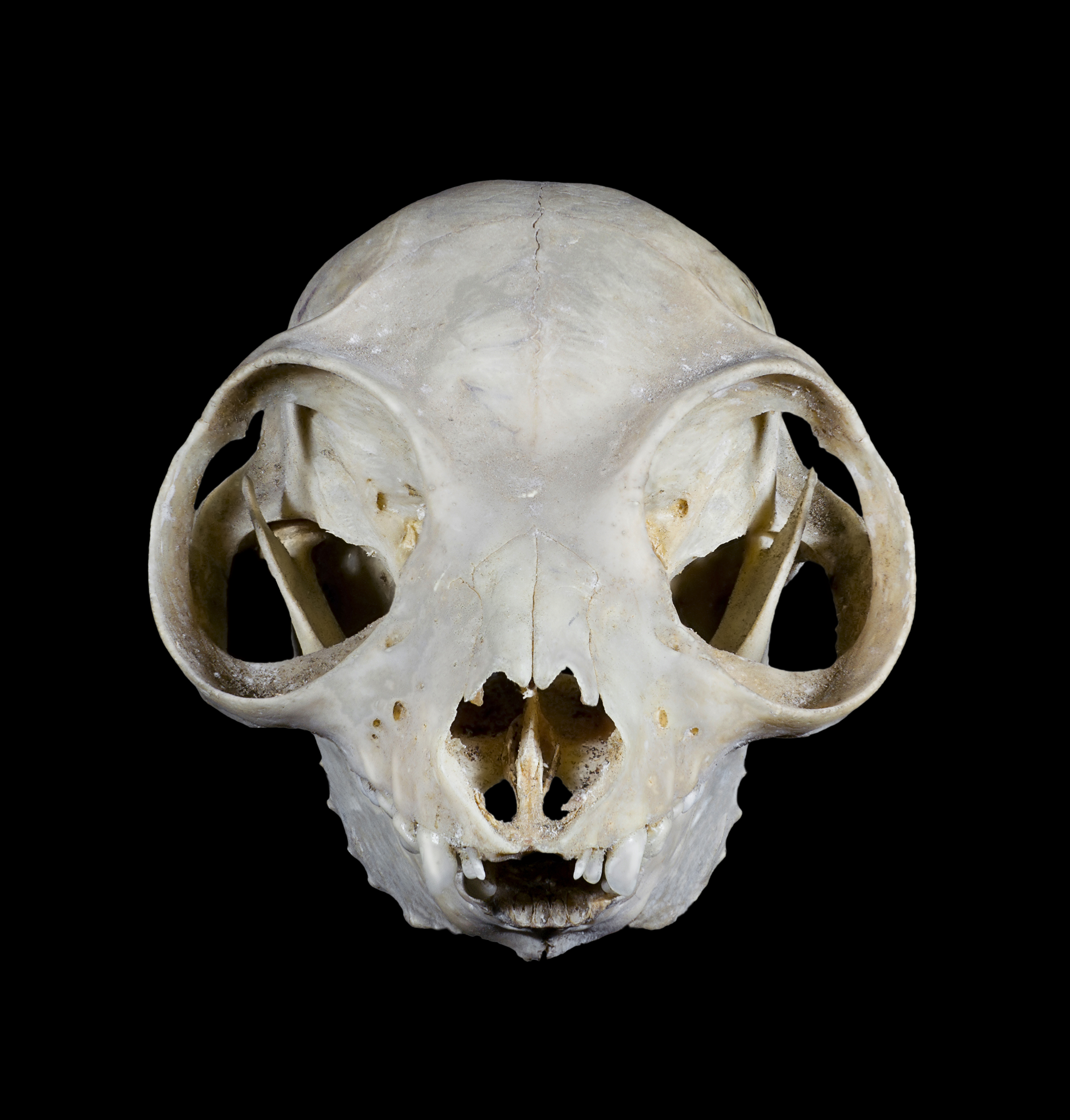 Eastern Woolly Lemur Avahi laniger (Gmelin, 1788) - (face.) - Madagascar Size : 6 x 4.7x 4.5 cm